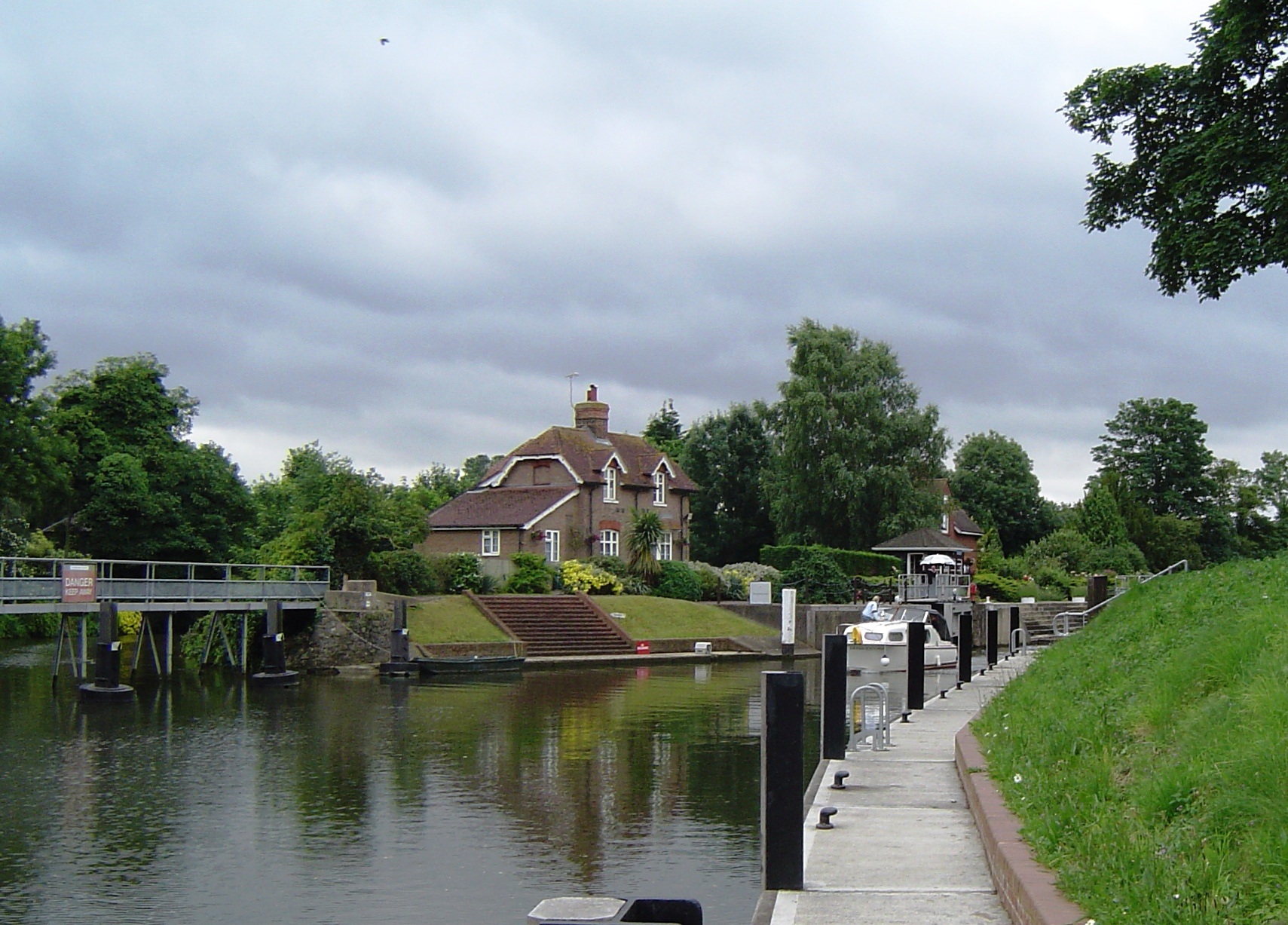 Old Windsor Lock, River Thames (copy own work from English wiki)